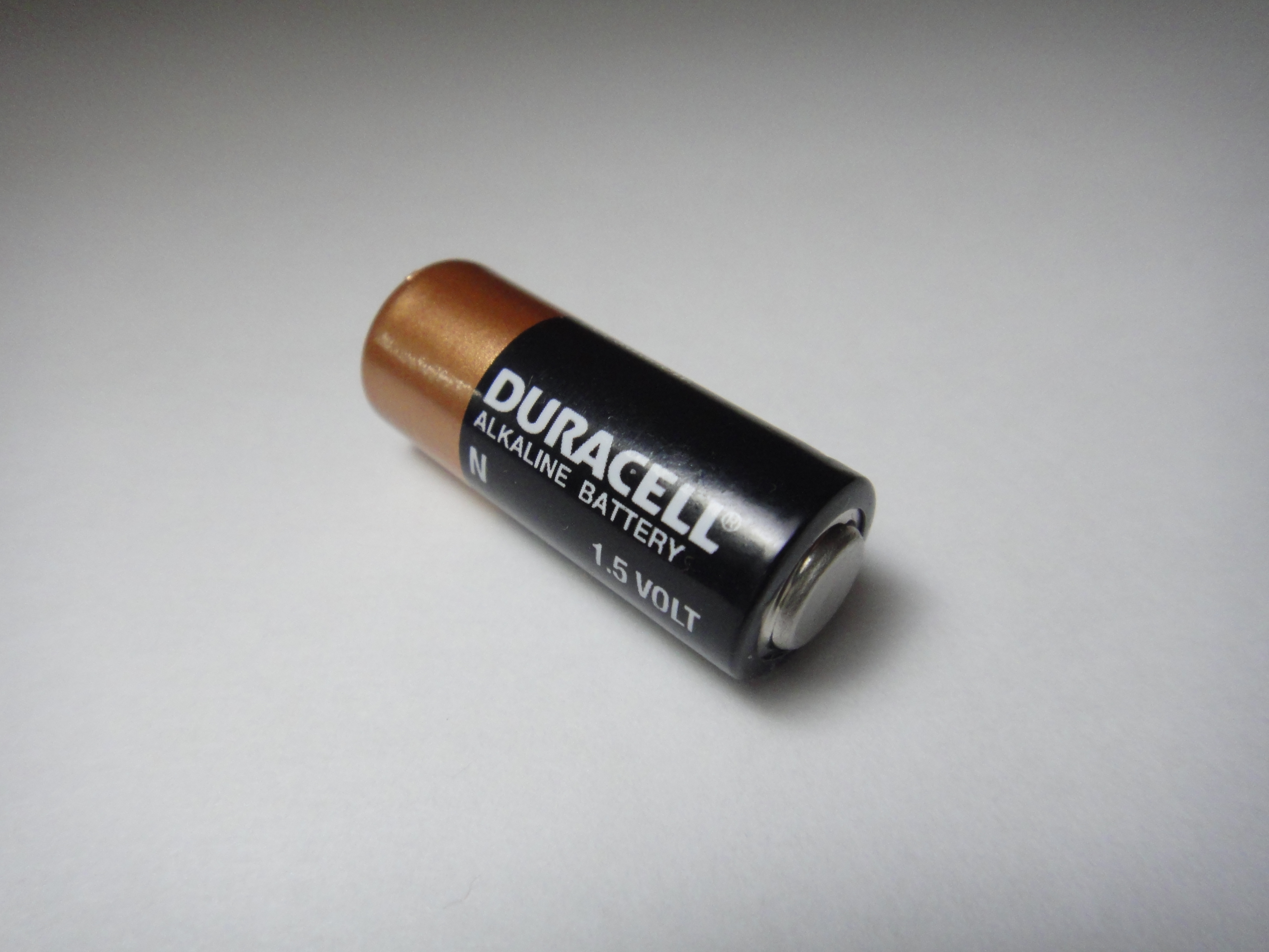 N battery (perspective)